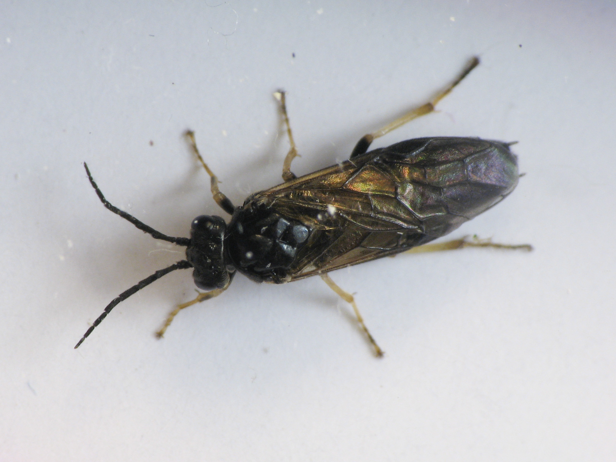 Bristly Rose Slug, Cladius difformis, adult female. Size: 5 mm. Willow Grove, Montgomery County, Pennsylvania, USA.